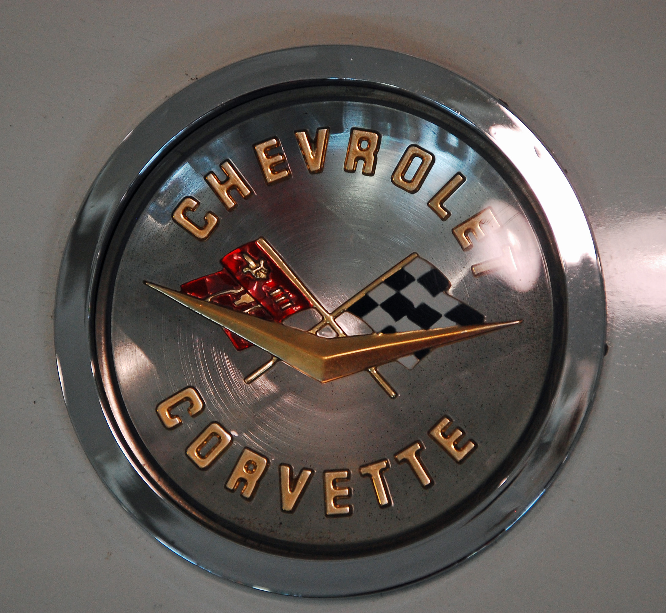 Chevy Corvette logo